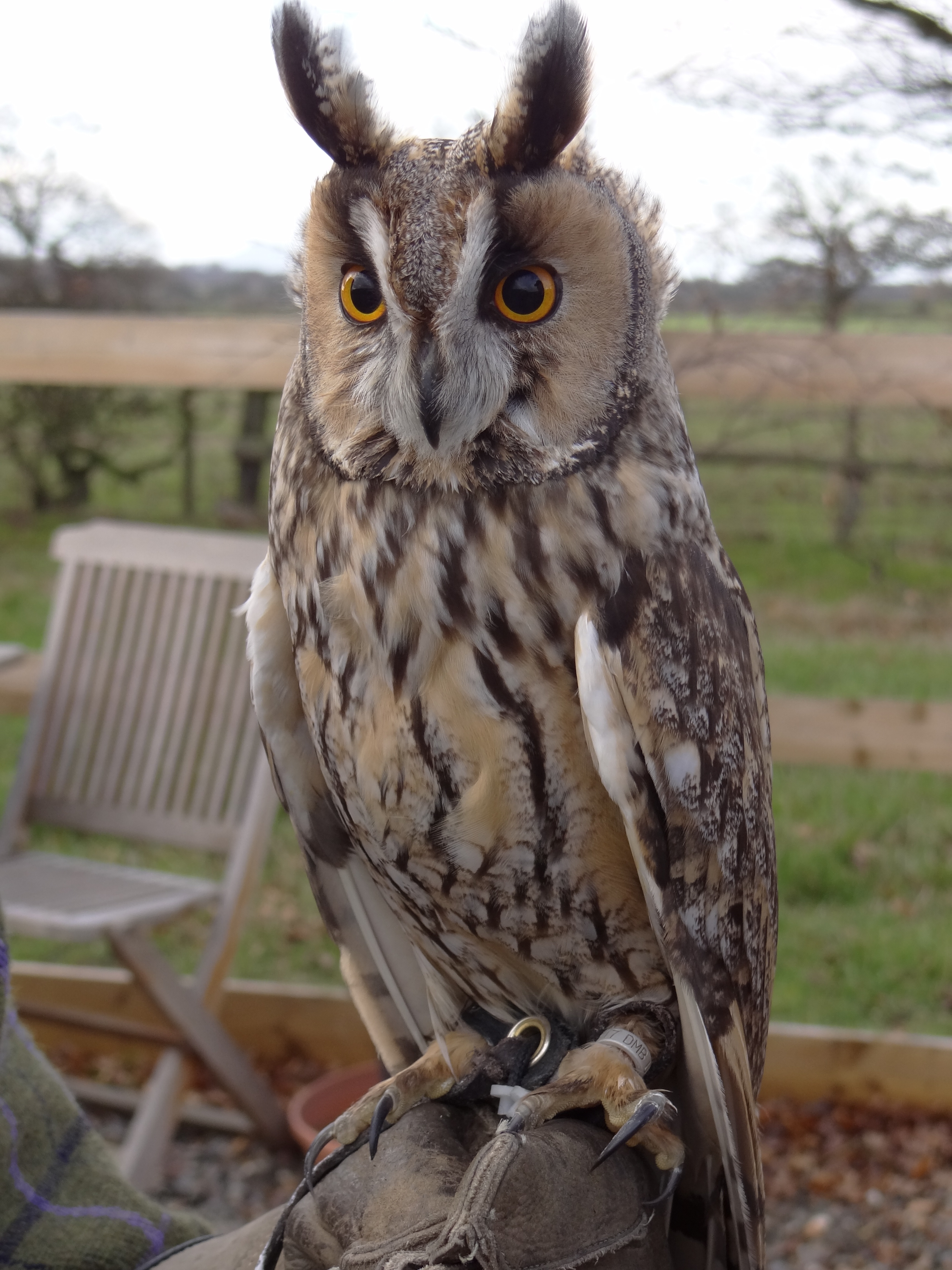 A Long-eared Owl at Battlefield Falconry Centre, Shrewsbury, Shropshire, England.